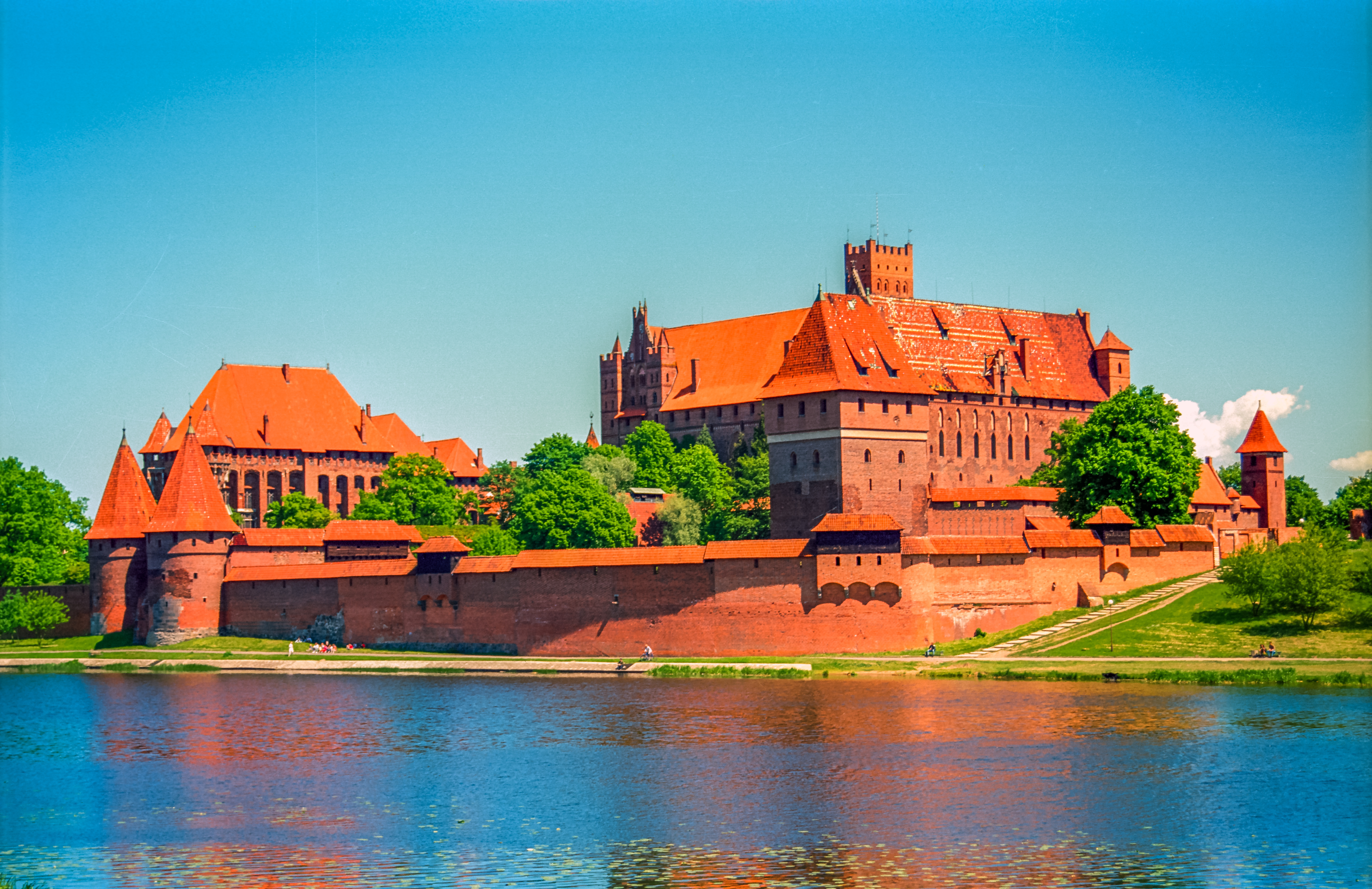 Poland, Malbork Castle